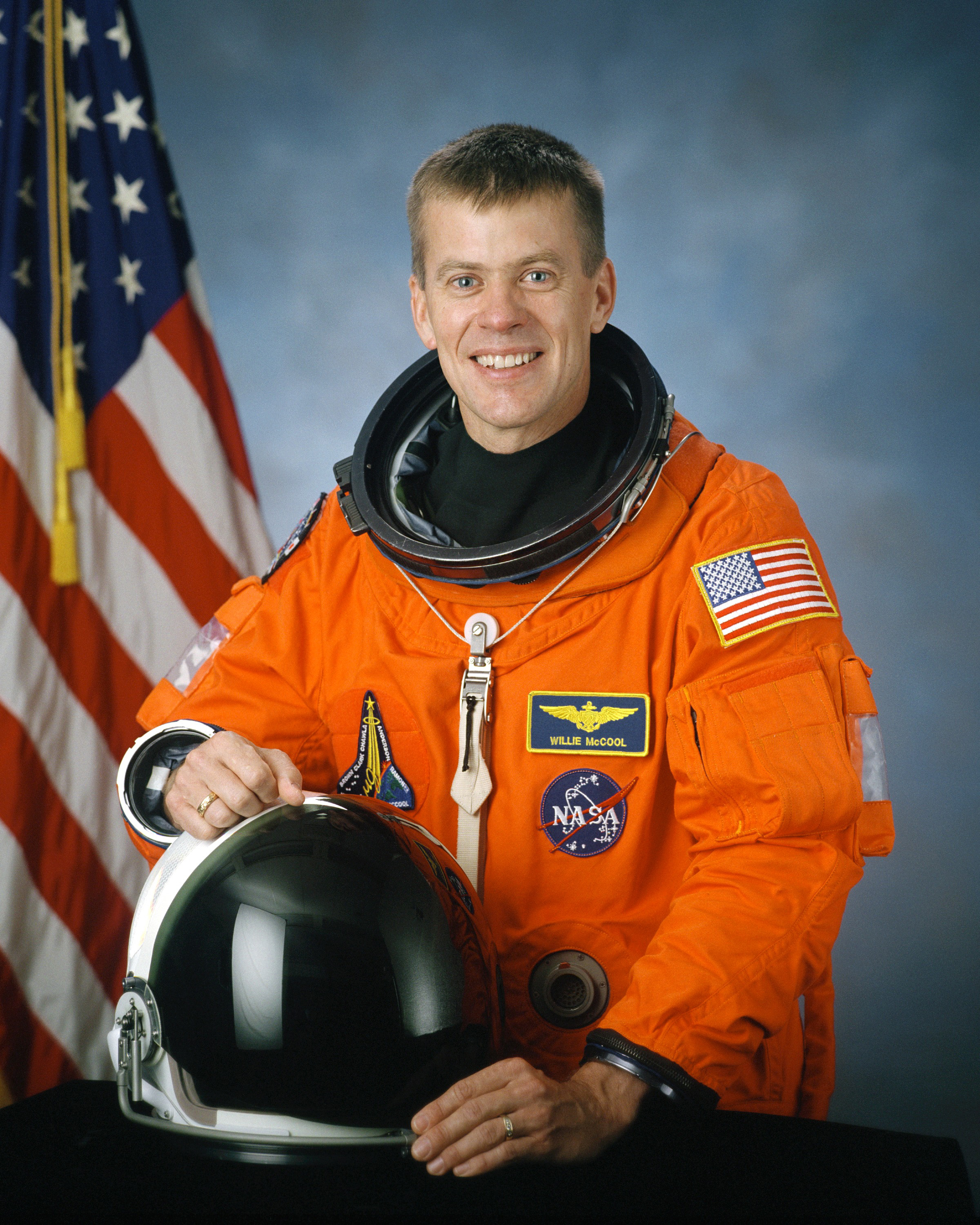 William C. McCool, American astronaut killed during the failed re-entry of Space Shuttle Columbia.